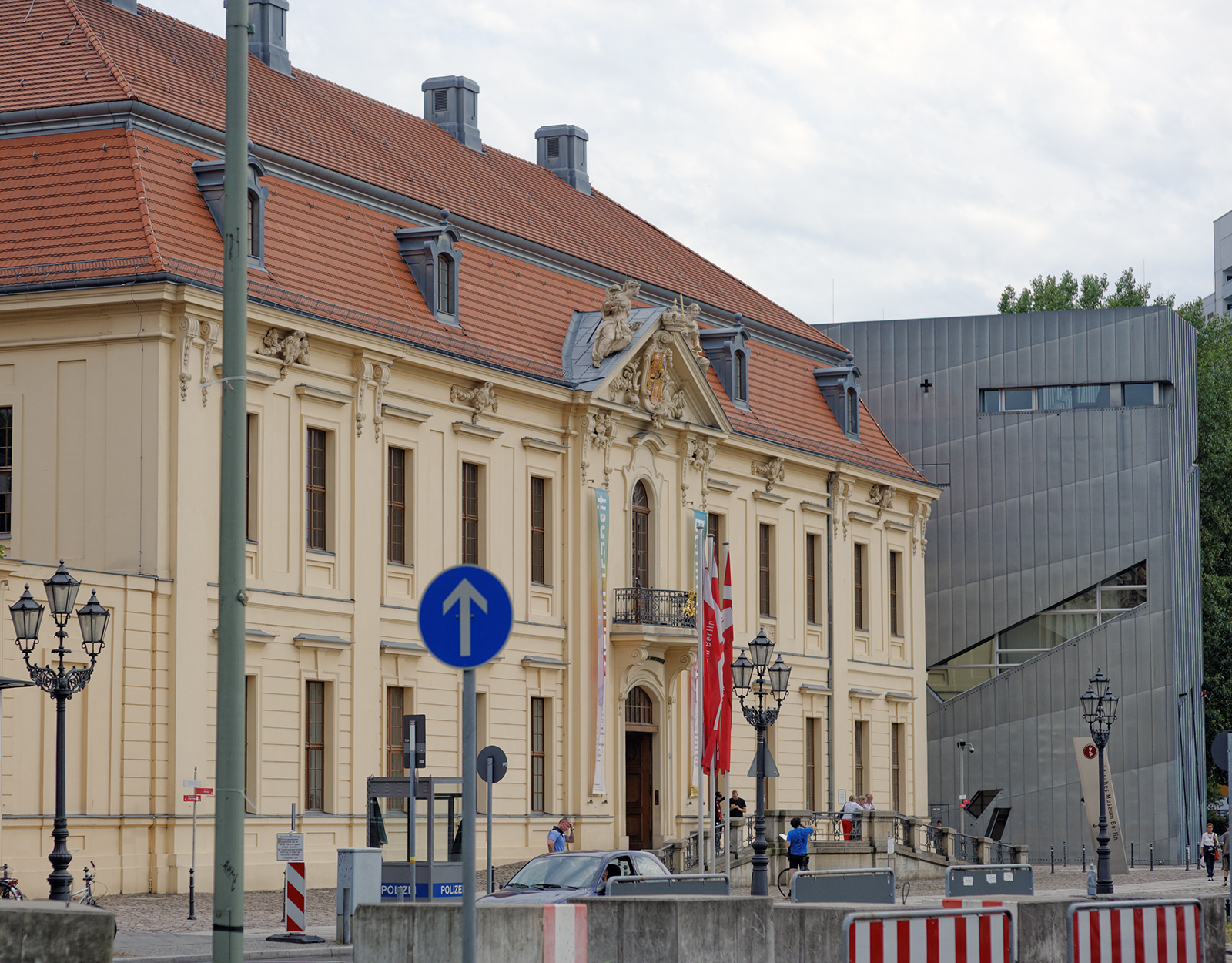 Jewish Museum Berlin July 2nd 2012